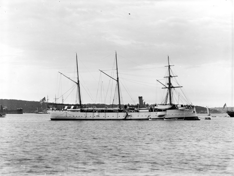 Photograph of German cruiser, believed to be SMS Bussard, in Sydney harbour, possibly with Bradley's Head in background.